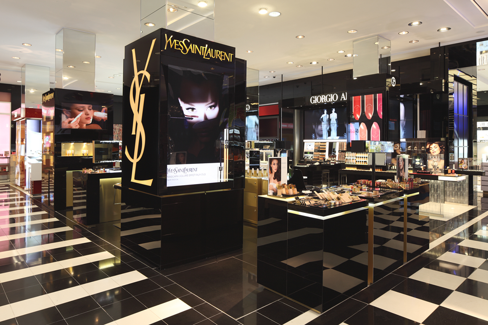 Action Yves Saint Laurent et Soft